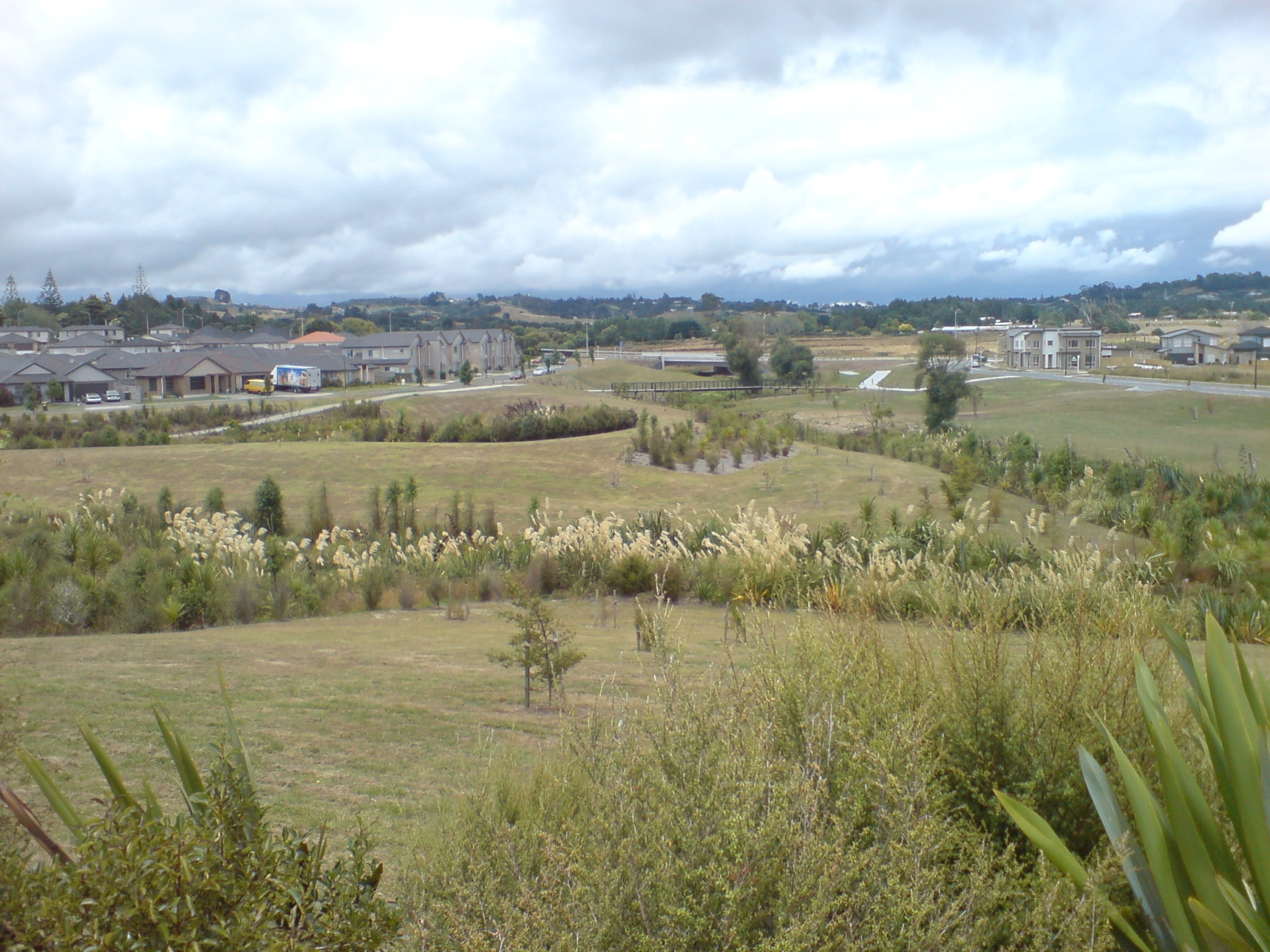 Barry Curtis Park in Auckland, New Zealand. Looking at one of the eastern fringes of the park, an example of the 'Green fingers' concept where many streams between residential areas converge in the central area wetlands of the park. Beginning residential devellopment visible near the future town centre.